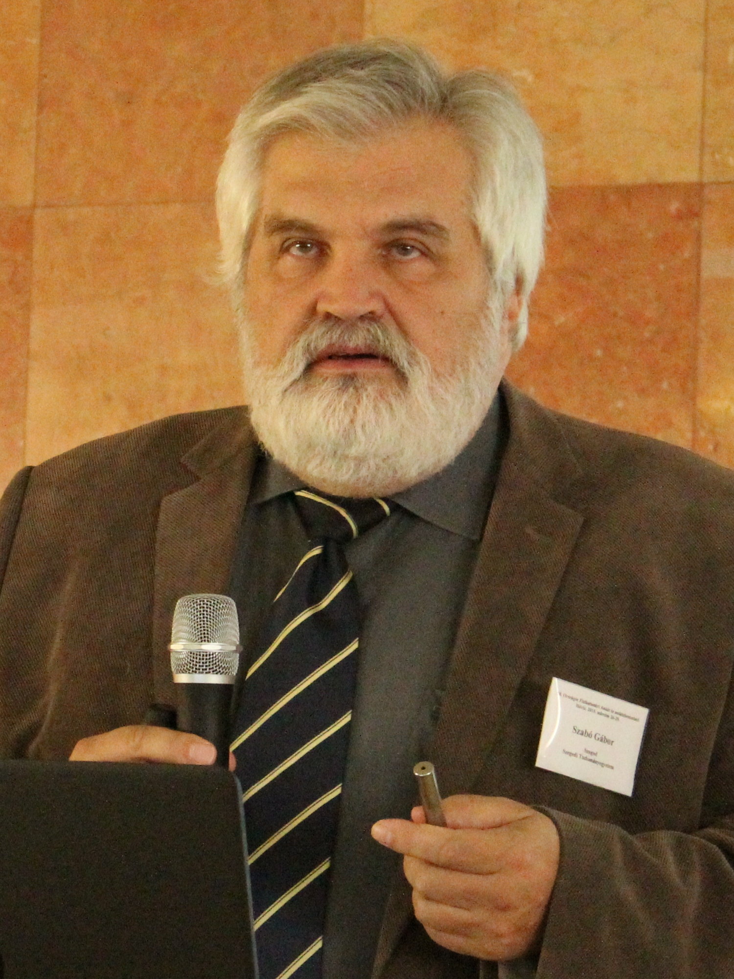 Gábor Szabó, Hungarian physicist.